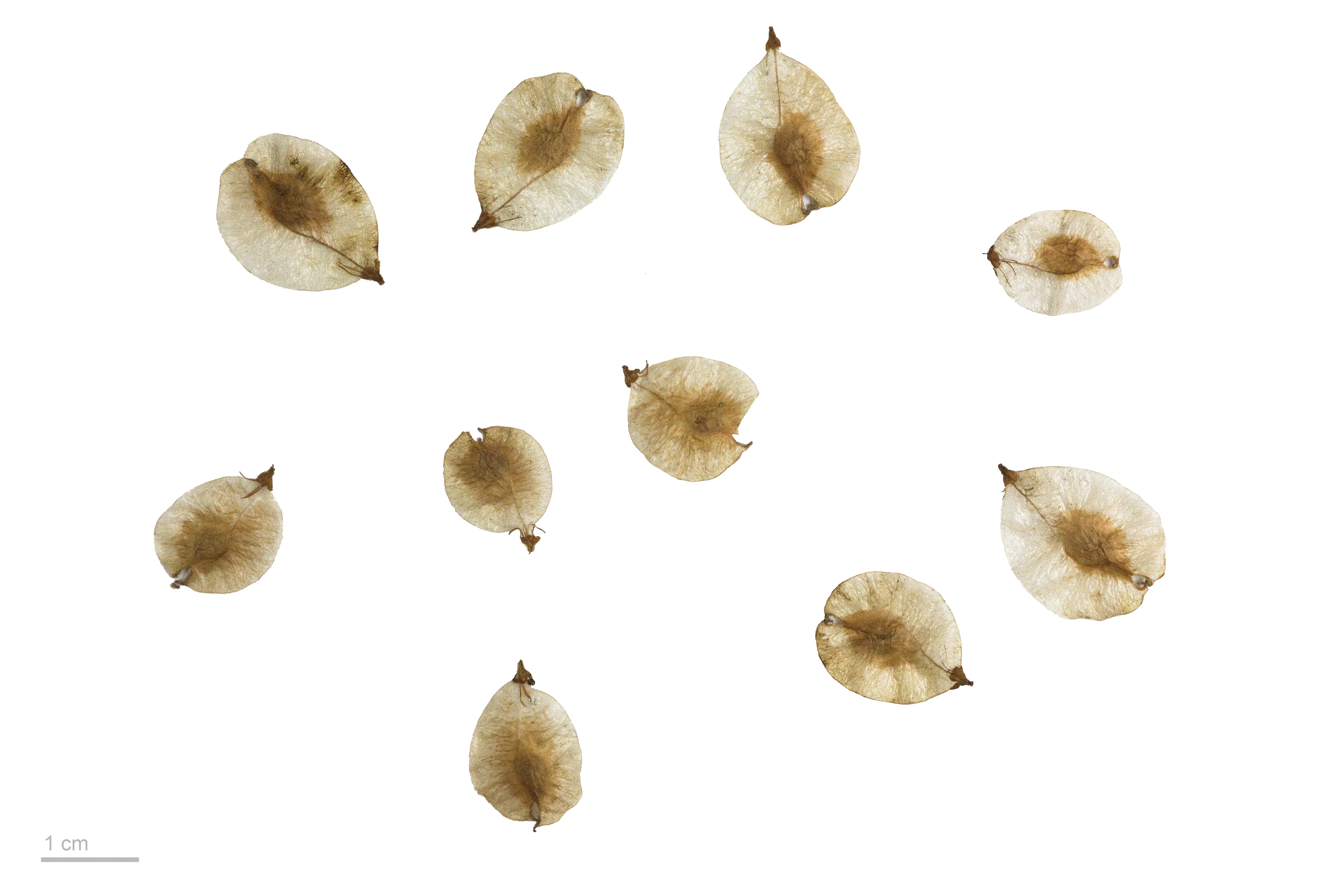 Field Elm , fruits and seeds